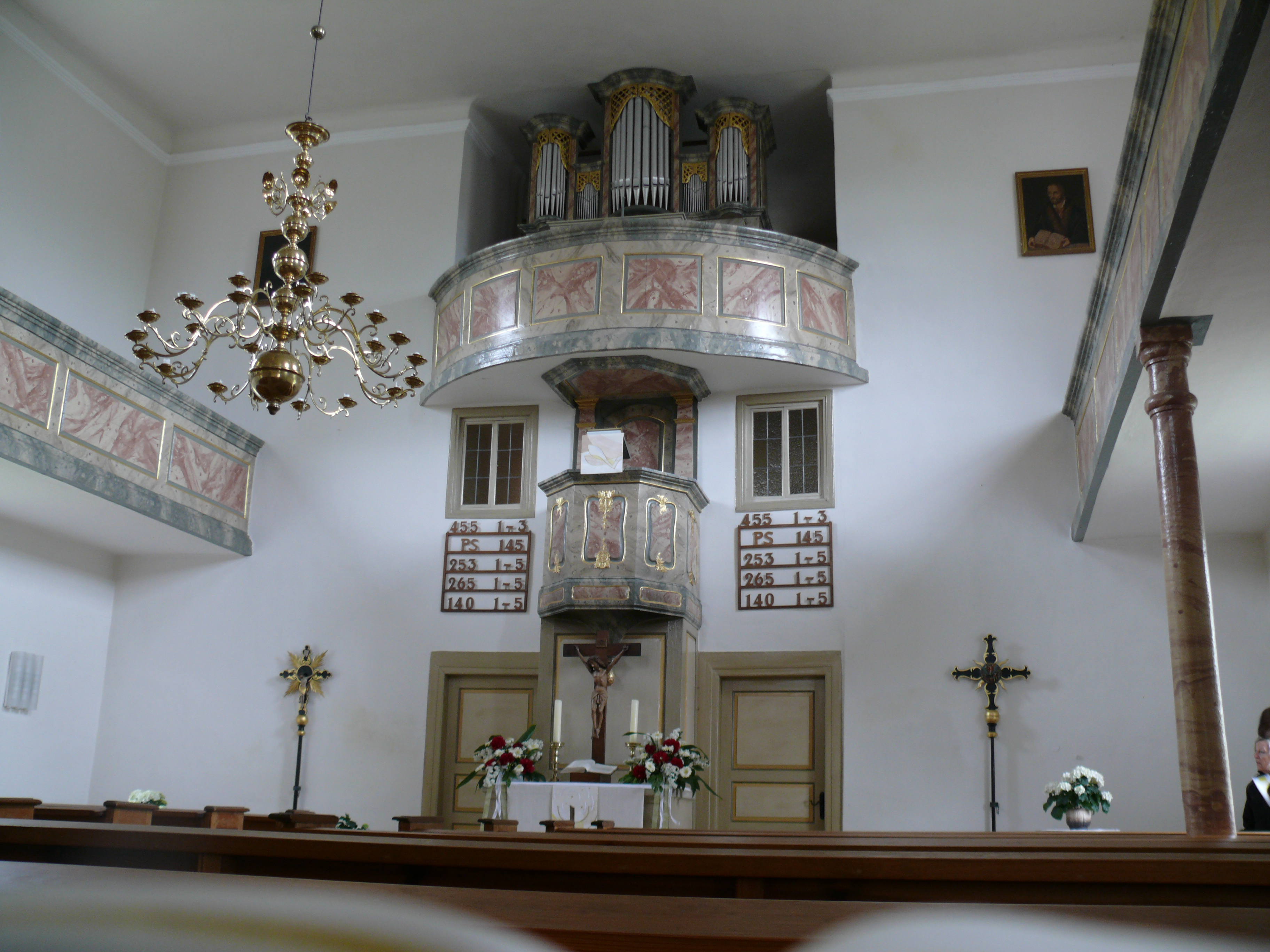 Interior of the protestant church in Freudenbach (a district of Creglingen, Germany), looking to the altar.